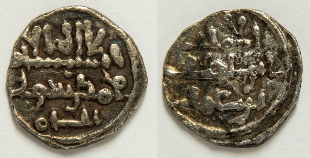 Coin of Almoravid king Abu Bakr ibn Omar (1061-1087)